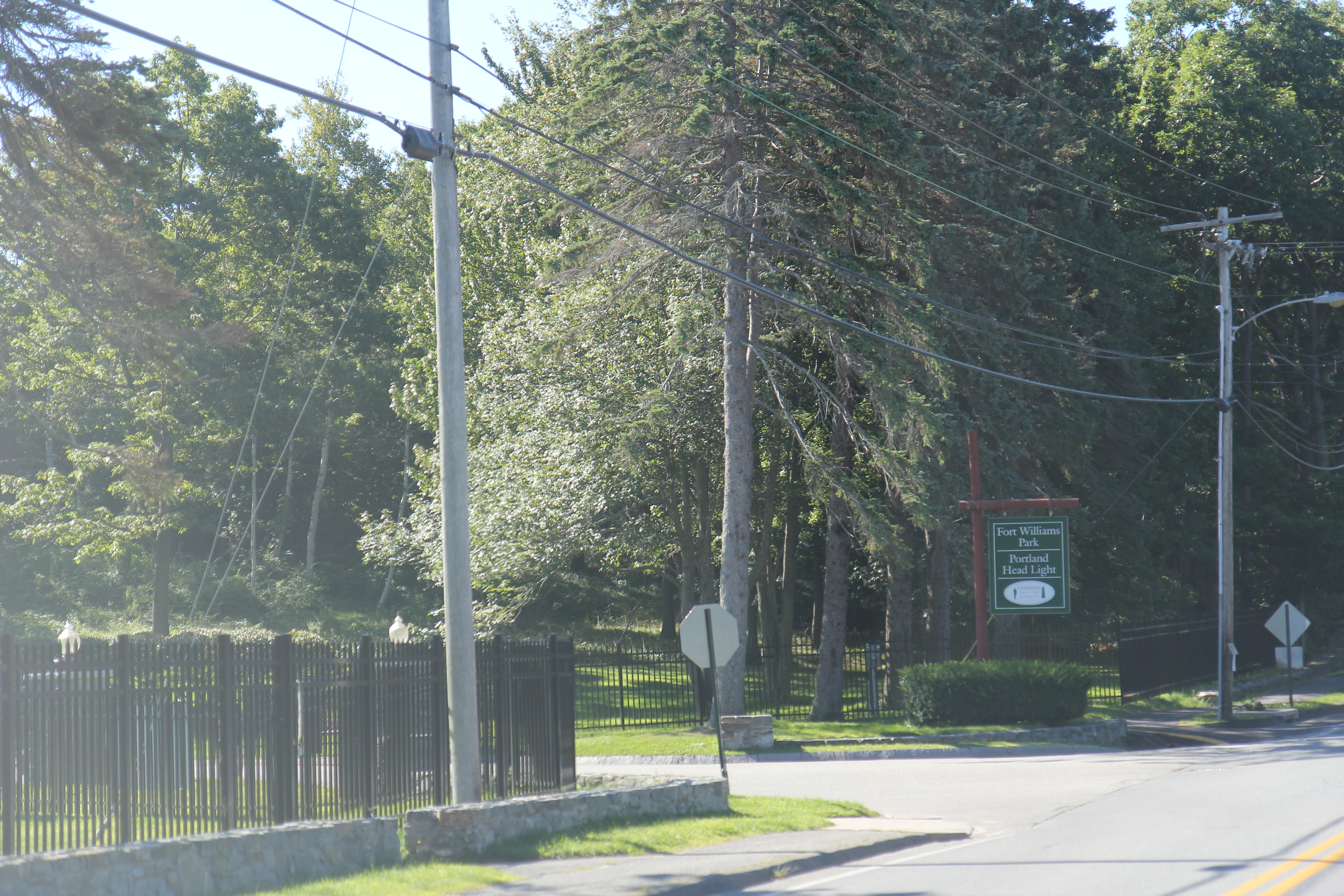 The entrance to Fort William Park at Cape Elizabeth near Portland, Maine